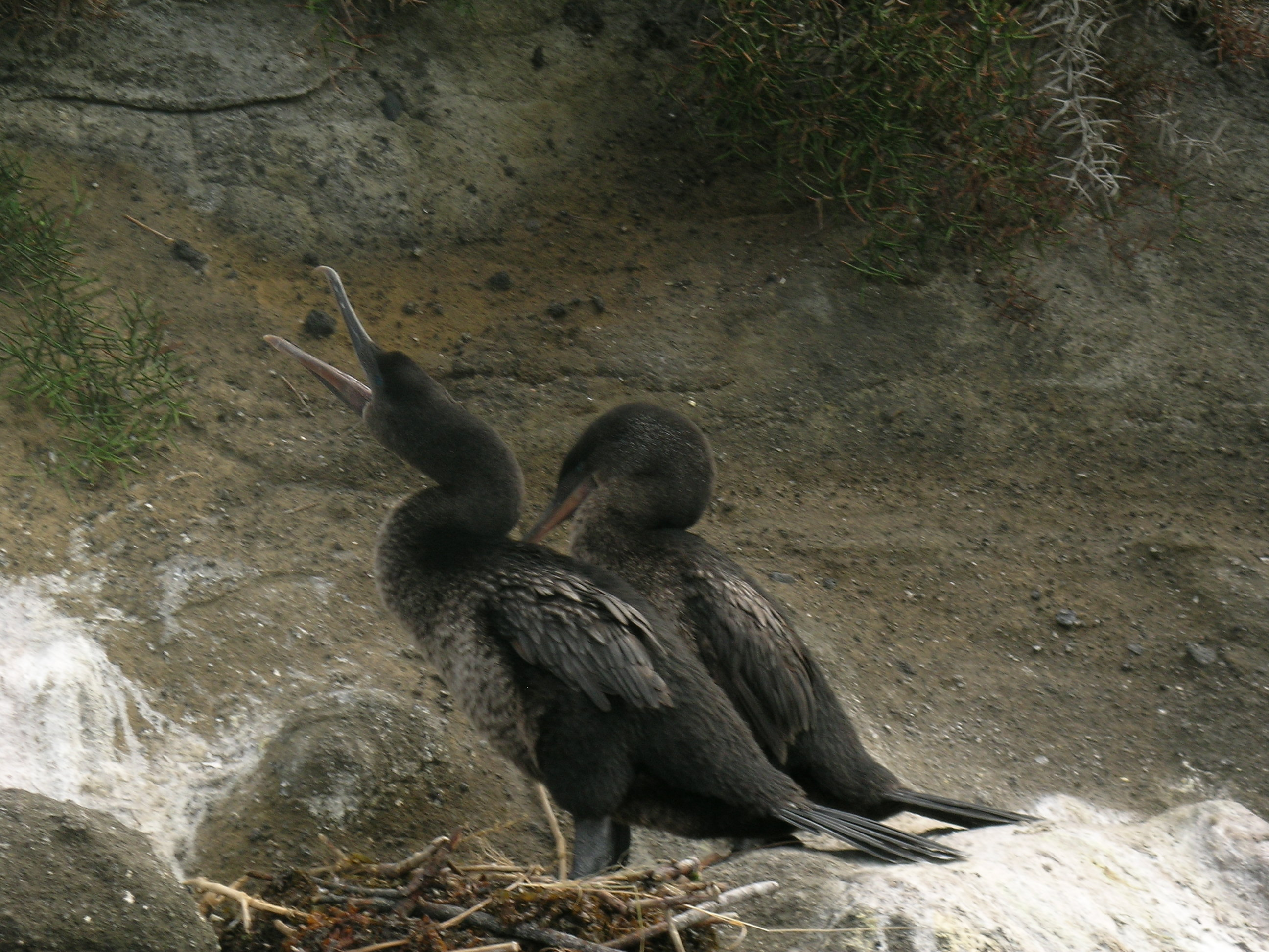 Flightless cormorant (Phalacrocorax harrisi) in Tagus Cove, Isabela Island